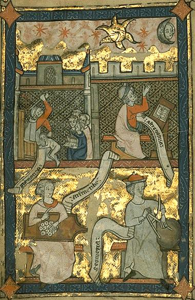 Seven liberal arts. There is no division on trivium and quadrivium. The first page. Above at the left the Grammar punishes the pupil before the whole class (four pupils seem to amuse oneself with the scene). On the right the astronomy is represented as the astronomer, who looks at skies (at the Moon, the Sun and stars) to do his recordings. Below Arithmetics with an abacus and Geometry with a compasses.